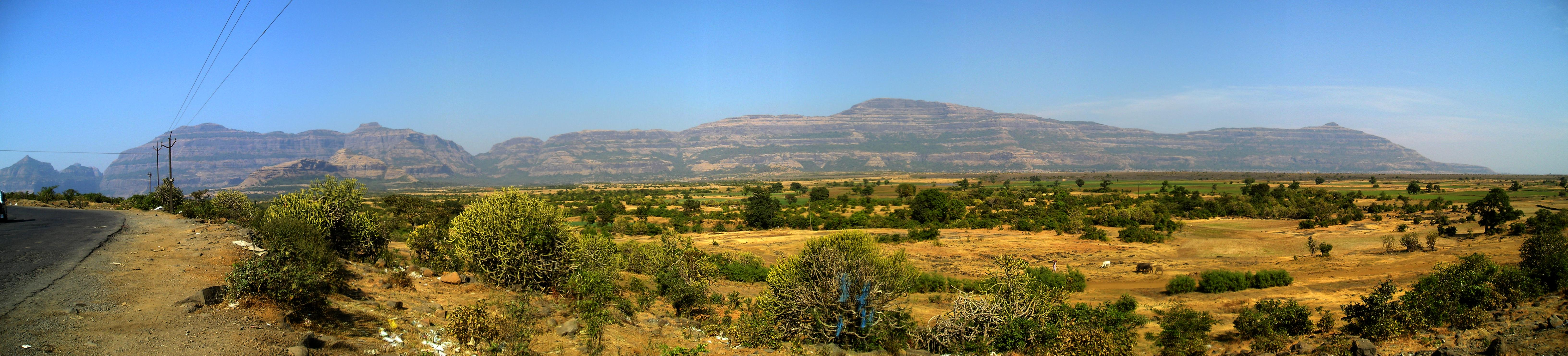 Panoramics in Maharashtra